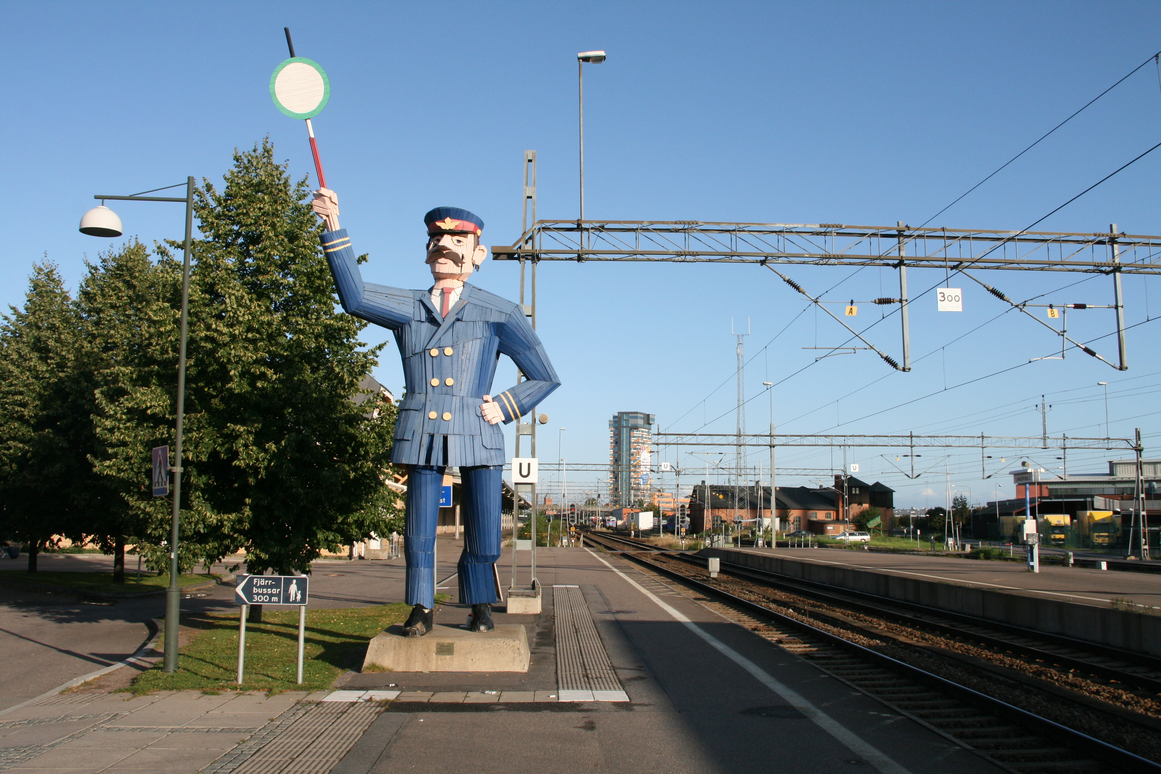 Wooden statue of a train station inspector, at Linköping central station in Linköping, Sweden. Such wooden sculptures were made by woodcraft teacher students around Linköping's 700th anniversary in 1987. One was donated to the sister city Palo Alto in California.